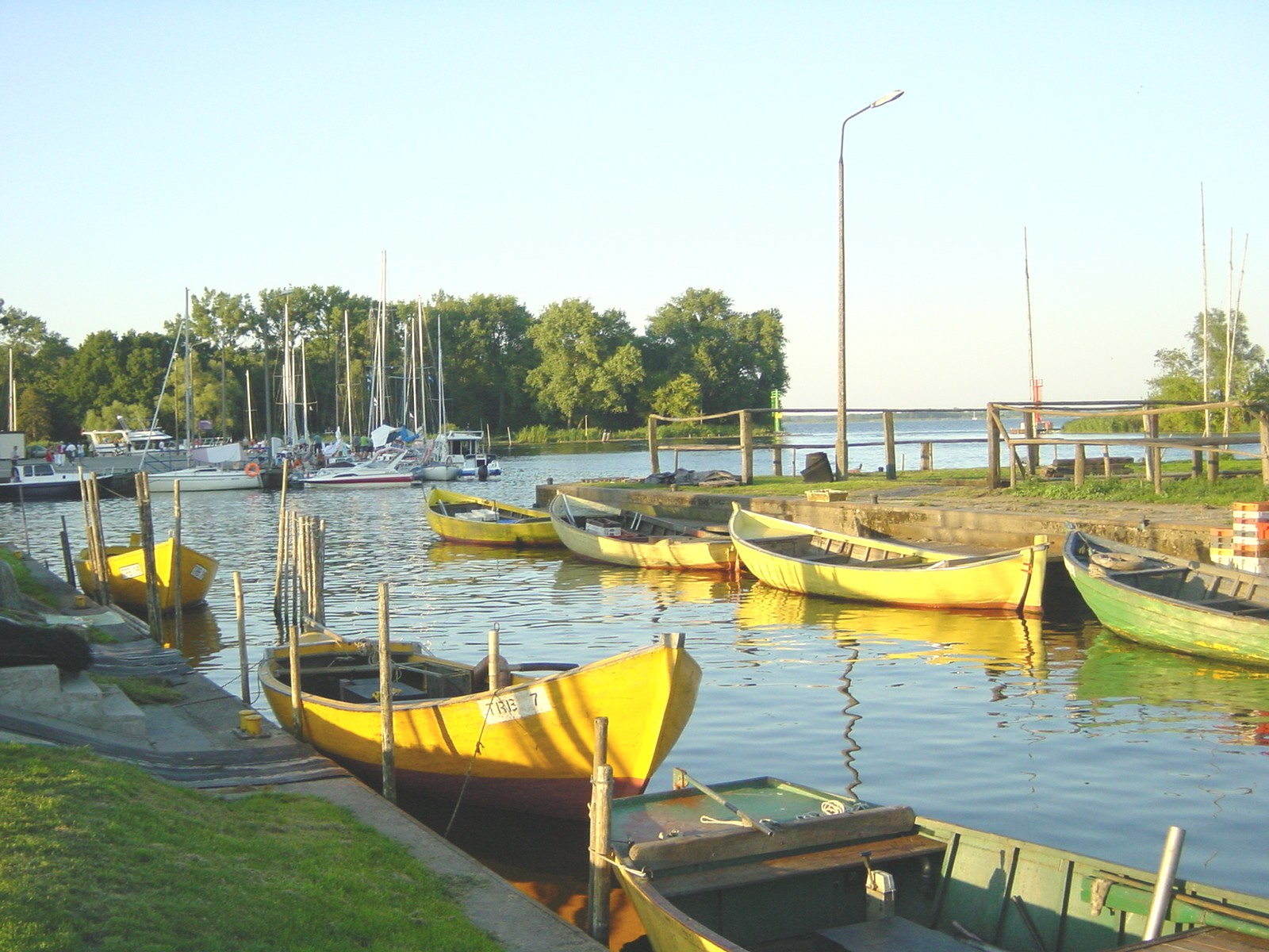 Fisherman`s Harbour in Trzebiez, Poland